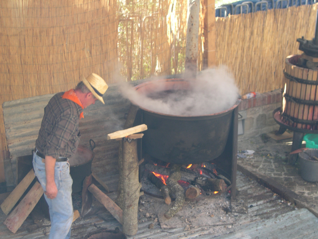 Steam of vino cotto